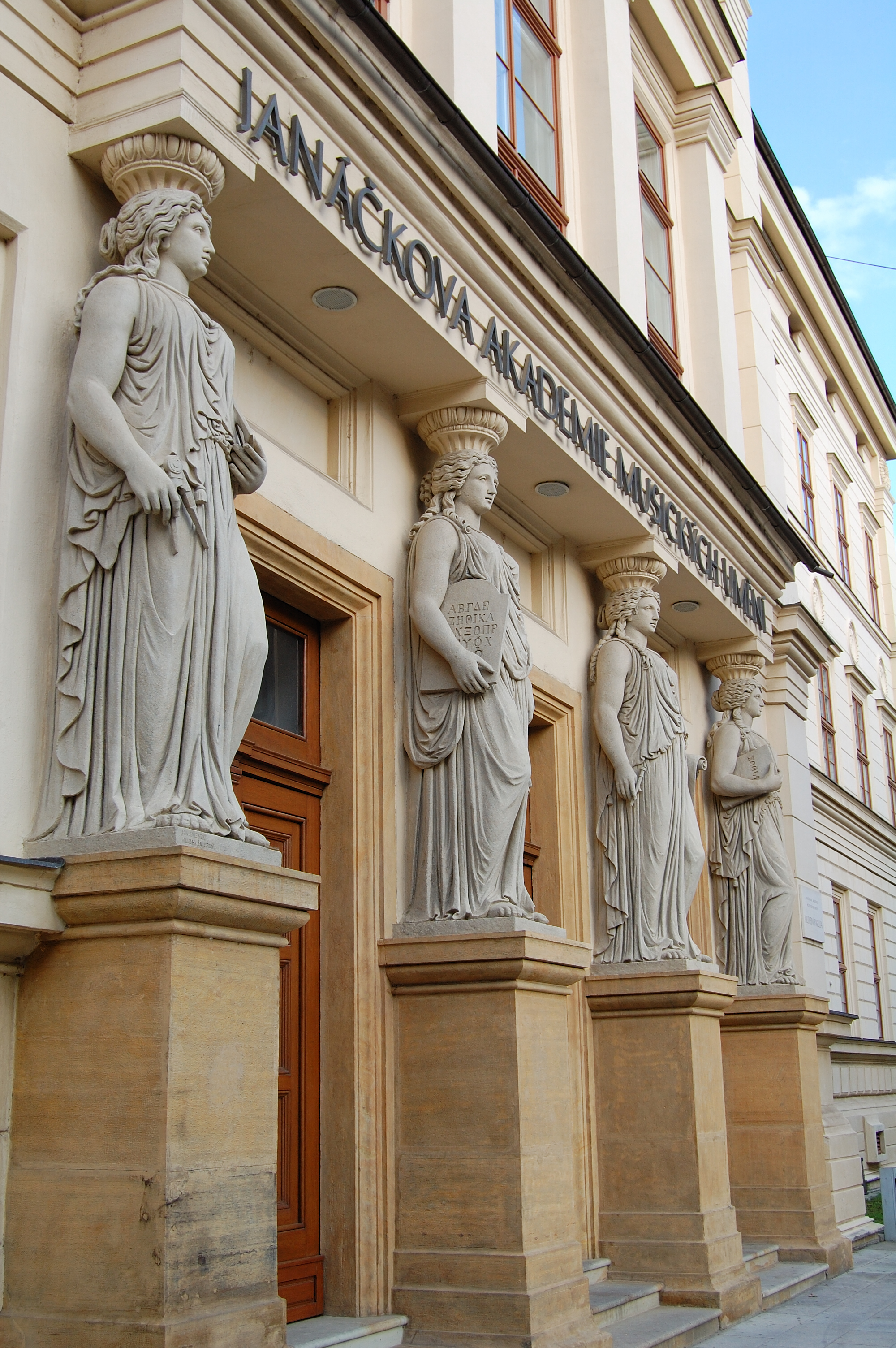 Janáček Academy of Music and Performing Arts in Brno.